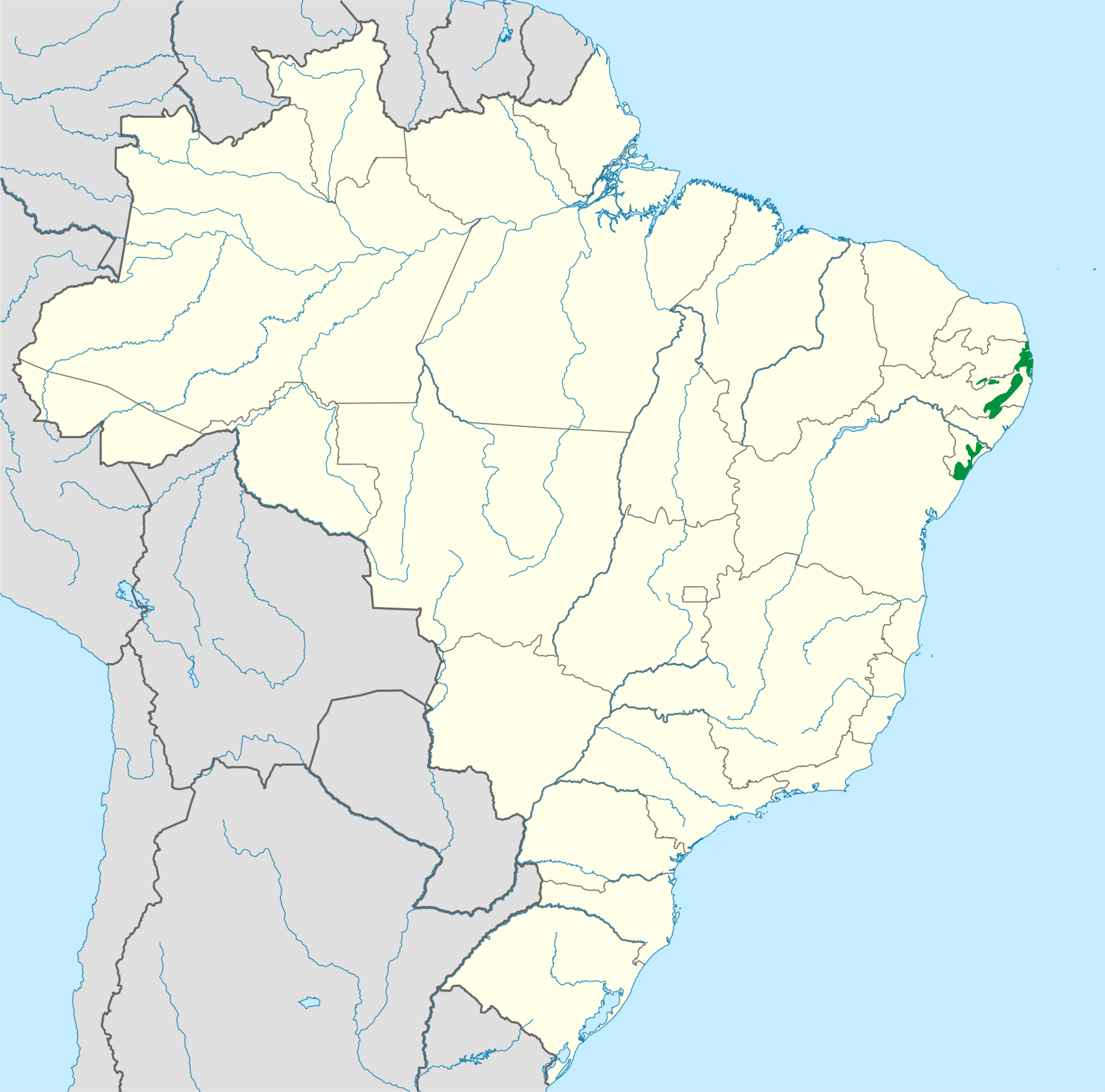 Approximate area of the Pernambuco interior forests ecoregion — of the Atlantic Forest biome. As delineated by WWF.